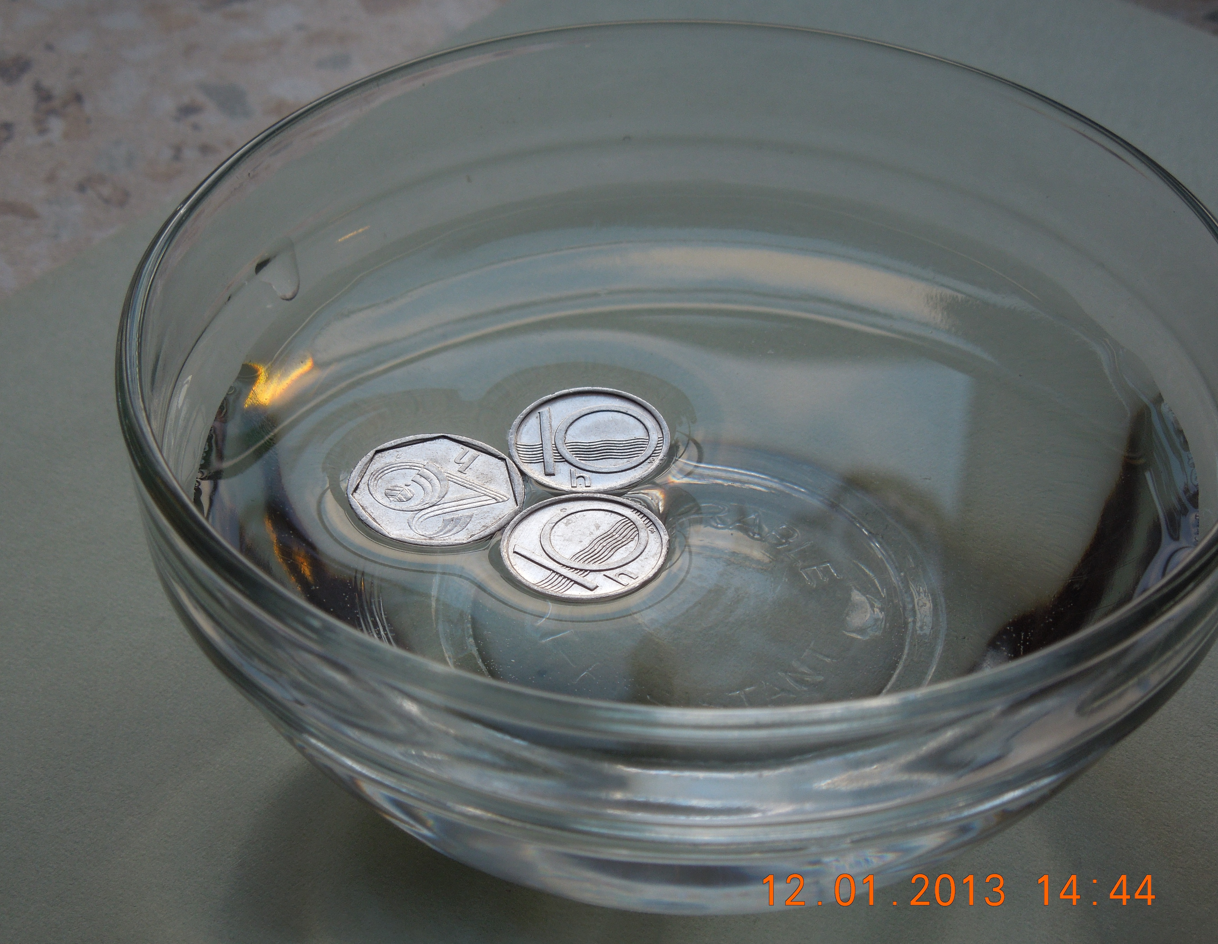 surface tension - coin